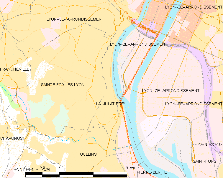 Map of French municipality